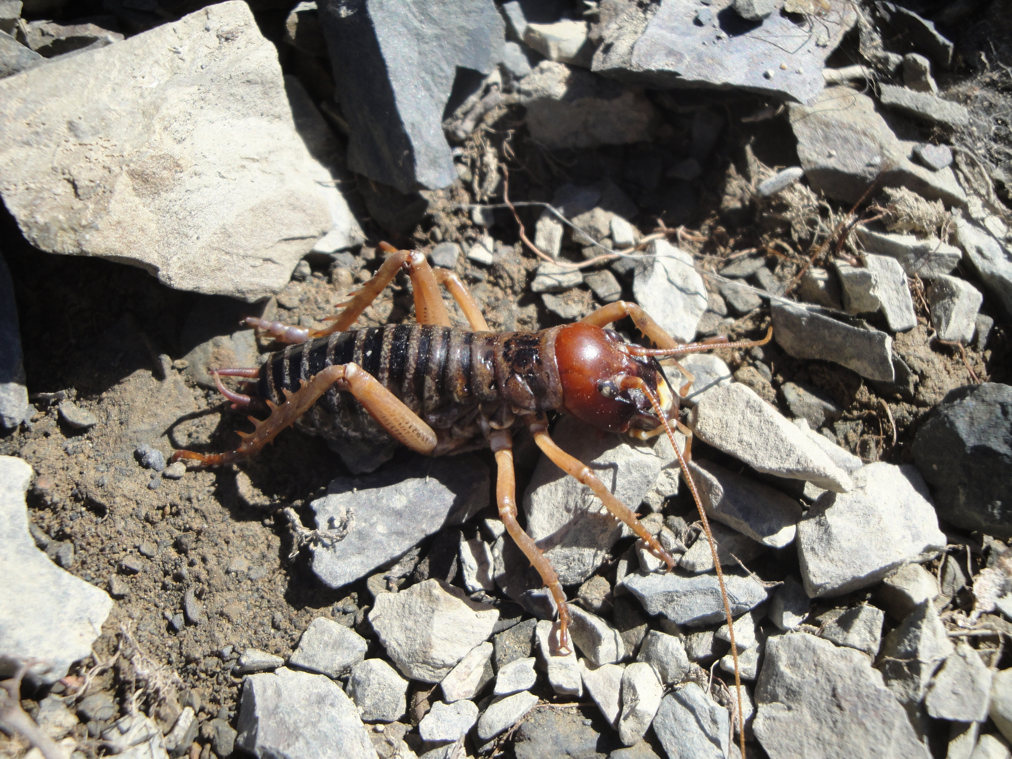 Endemic New Zealand tree wētā. A kind of cricket: Orthoptera, Ensifera, Anostostomatidae